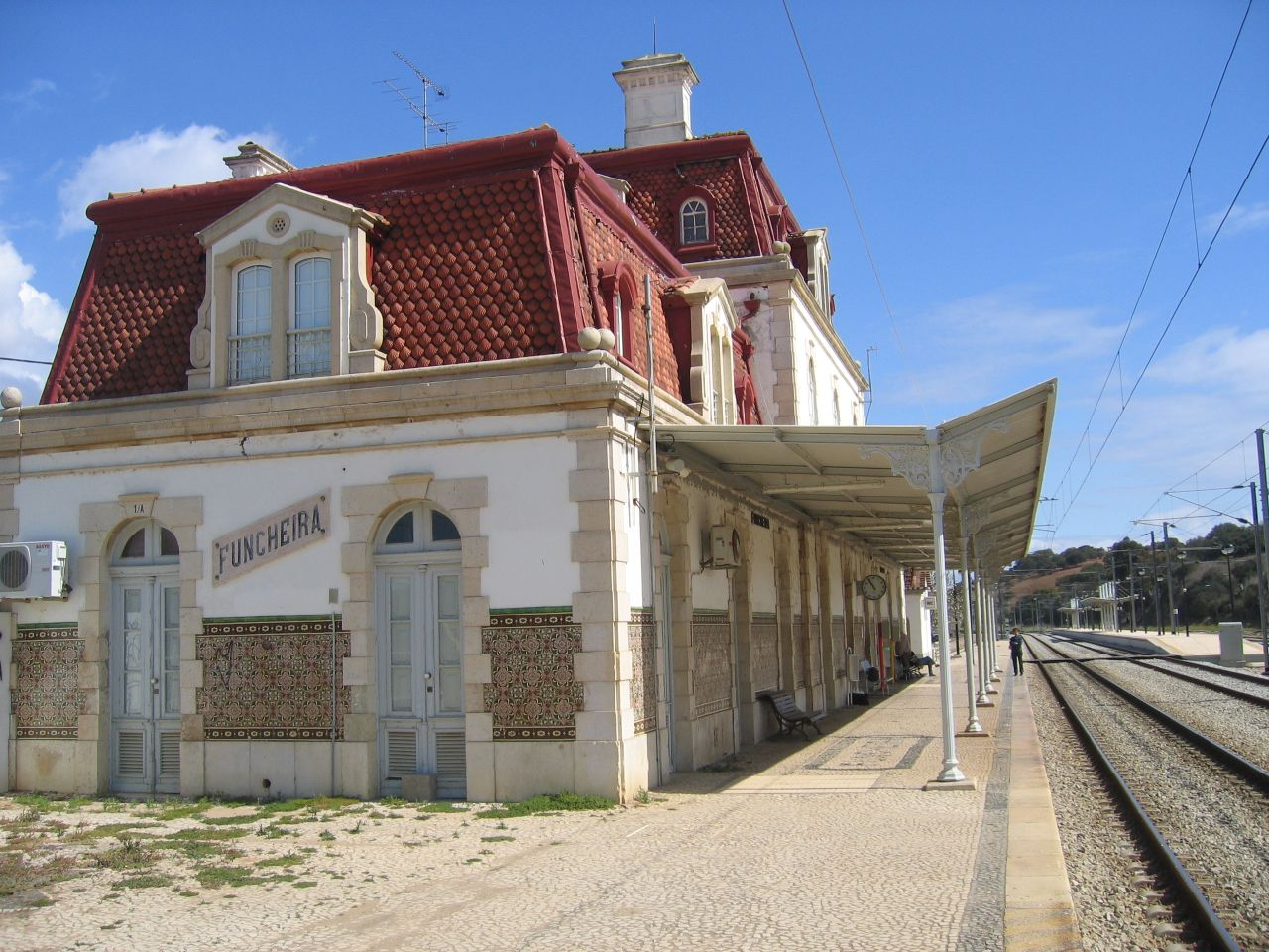 Funcheira train station, Funcheira, Portugal